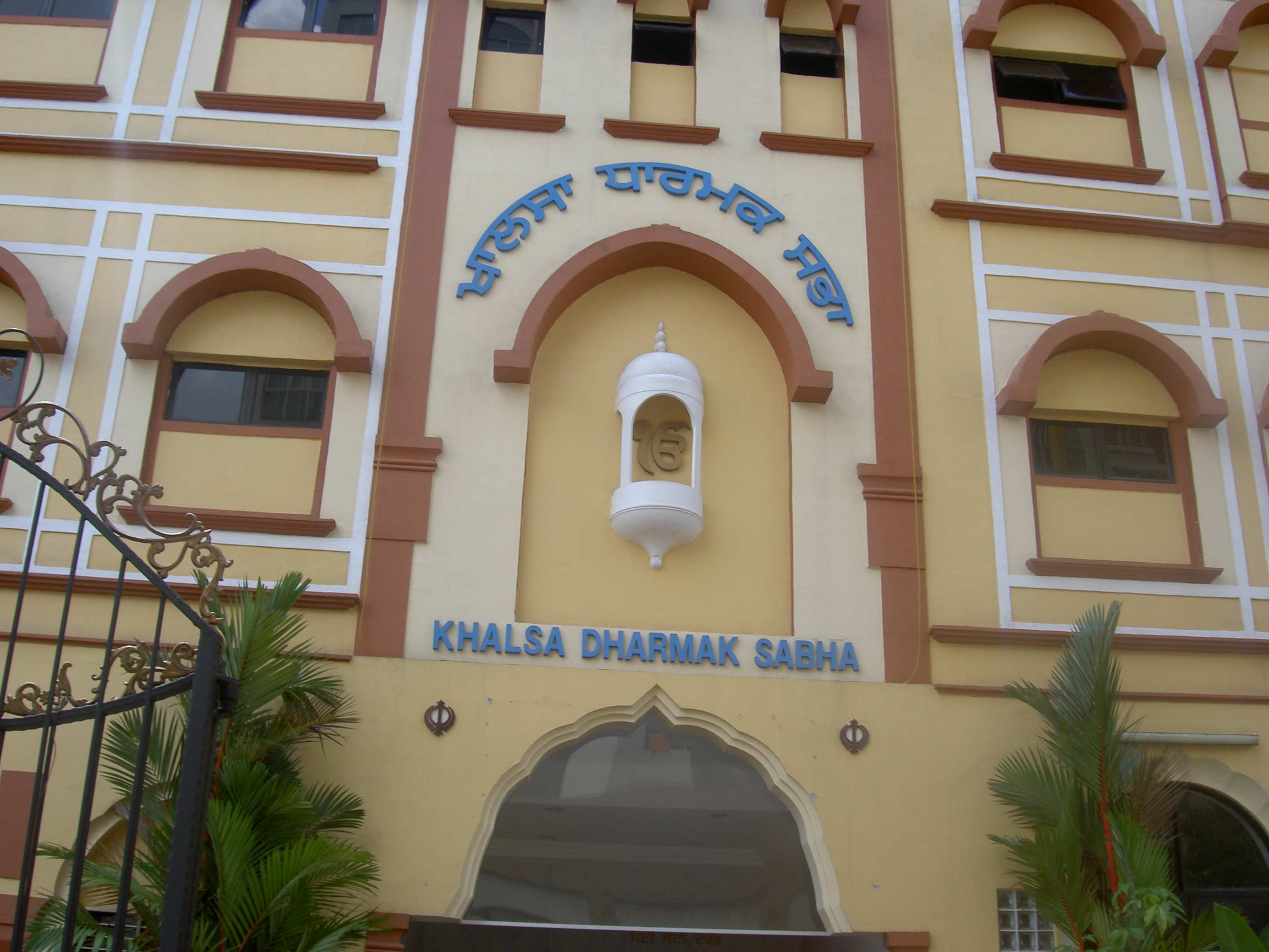 The Gurdwara Khalsa Dharmak Sabha, a Sikh temple, at 18 Niven Road, Singapore 228365.